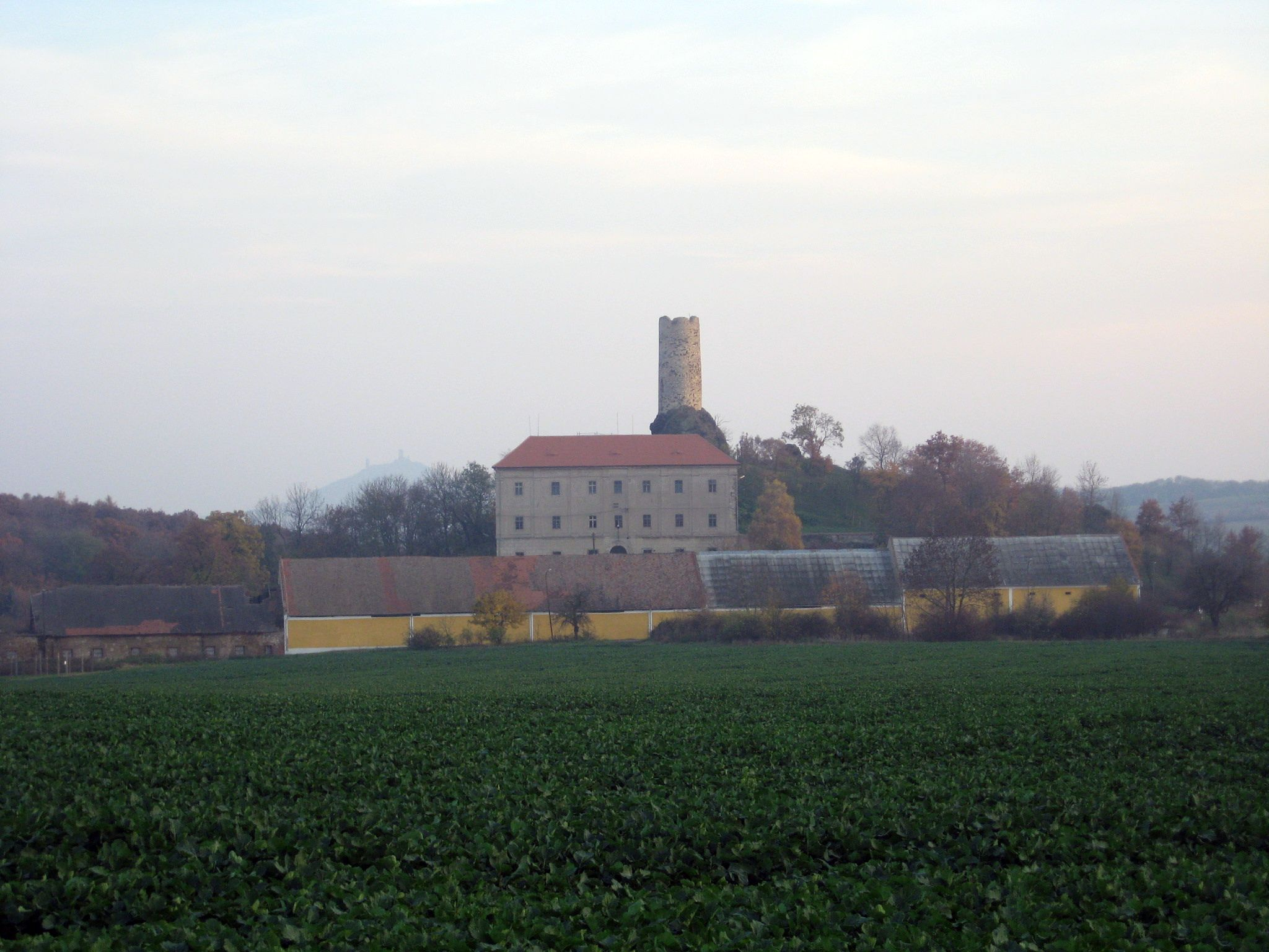 Skalka Castle in Czech Republic